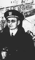 L. Ron Hubbard and Thomas Moulton at the Albina Engine and Machine Works, Portland, Oregon. From the Oregon Journal, April 22, 1943: "Ex-Portlander Hunts U-Boats"